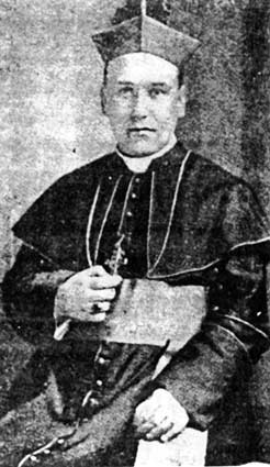 It is believed to be in fair use because it is a unique historic photograph of high importance, whereas there are no known public domain image for the same subject. Displaying this image on Wikipedia does not reduce the value of the image for the original copyright holder.